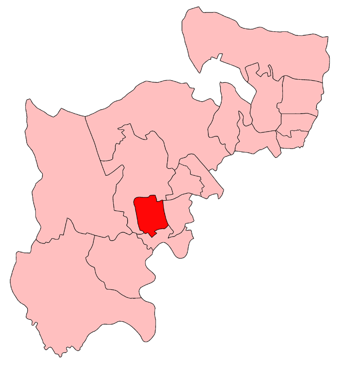 A map of Ealing constituency within Middlesex, as it existed from 1918 to 1945.